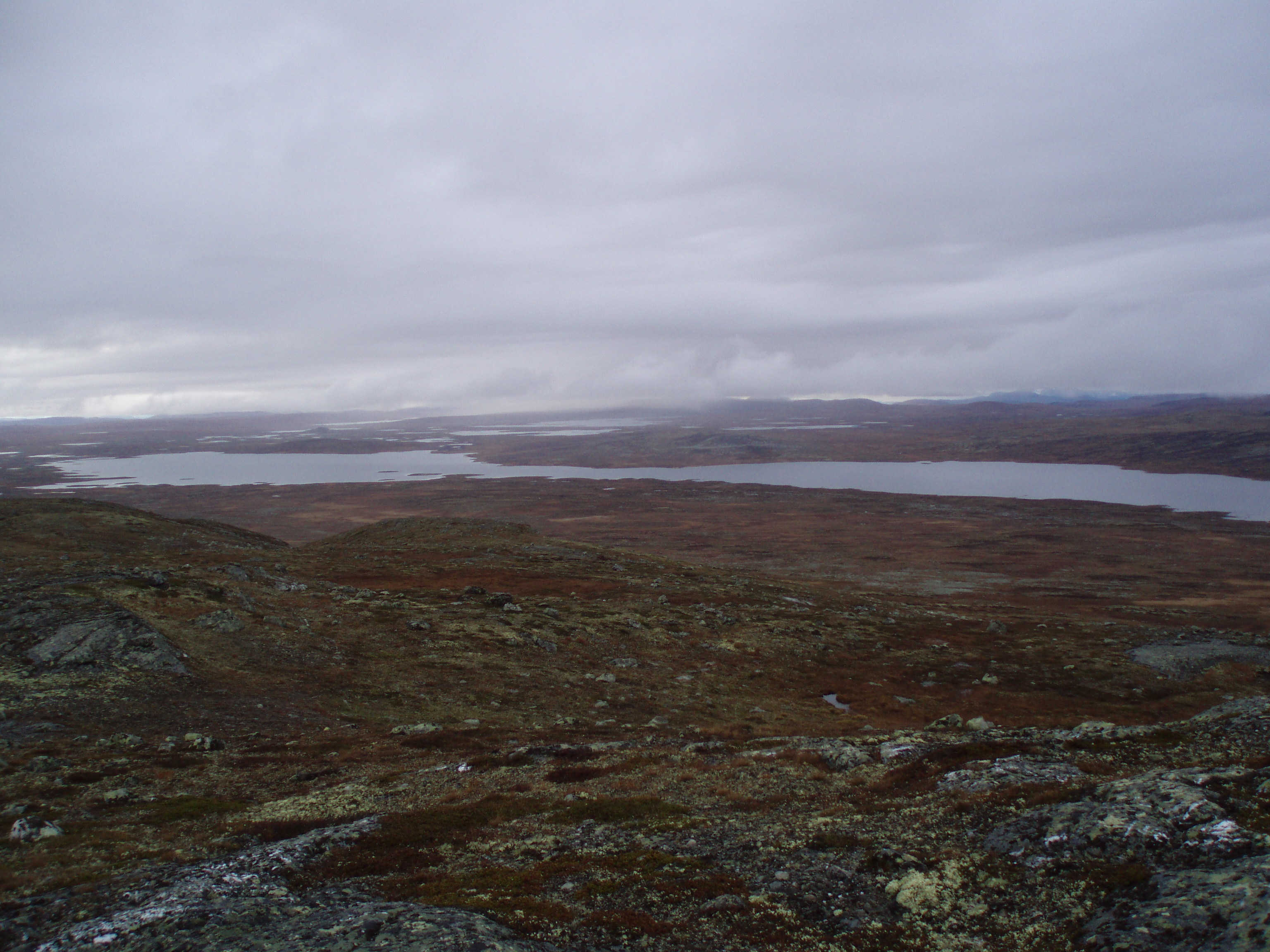 Picture of the western part of lake Langesjøen at Hardangervidda seen from Store Skrekken in south.